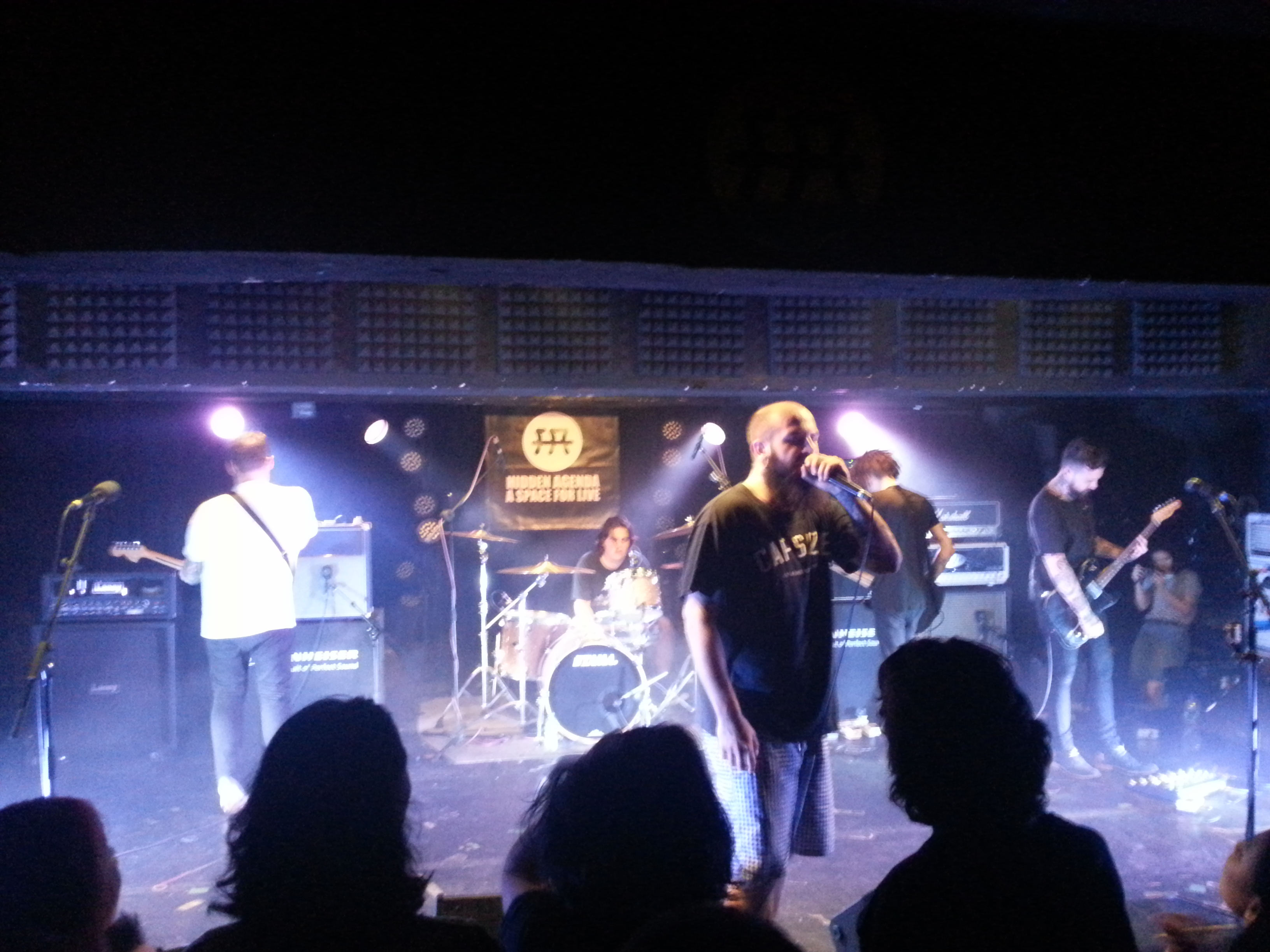 American hardcore band performing live in Hongkong's Hidden Agenda in 2015